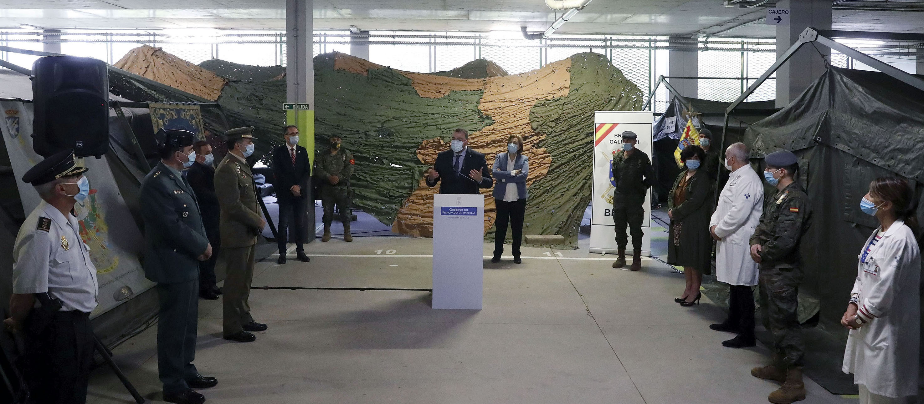 Oviedo. 11-6-2020. El presidente del Principado de Asturias, Adrián Barbón, interviene en el acto institucional que se celebra con motivo del repliegue parcial del hospital de campaña del HUCA. Asisten también el consejero de Salud, Pablo Fernández Muñiz; la directora gerente del Sespa, Concepción Saavedra, y el gerente del área sanitaria IV, Luis Hevia.Foto: ArmandoÁlvarez.